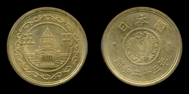 5yen-S23(current coin)